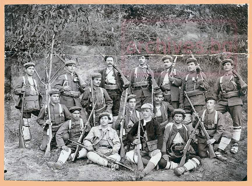 cheta of Hristo Kutrulia